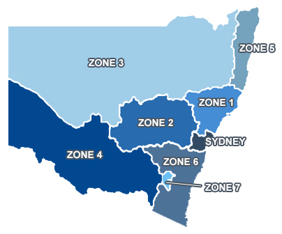 This image shows the Zone regions of the New South Wales Operating Theatre Association, in existance since 1971